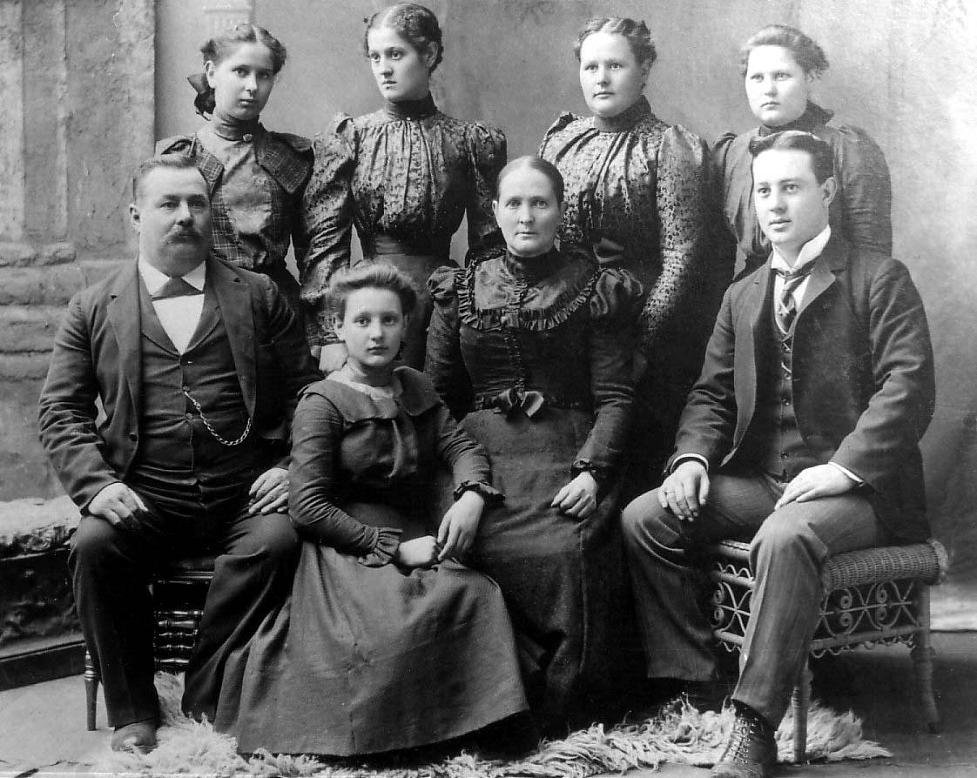 Anna Truedsdotter Hansen (1851-1922), husband Peter L. Hansen & children (l-r) Clara (Nickell), Margaret (Sullivan), Dora (Stowe Murphy), Lena (Richter), Minnie (Miller) & Louis P. Hansen, as released by image owner FamSACPlace: Omaha, Nebraska